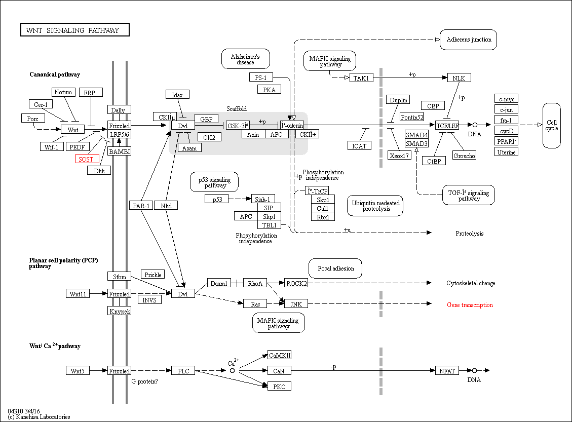 La senyal Wnt està implicada en el procés biològic de la proliferació cel·lular, la diferenciació i l'apoptosi.